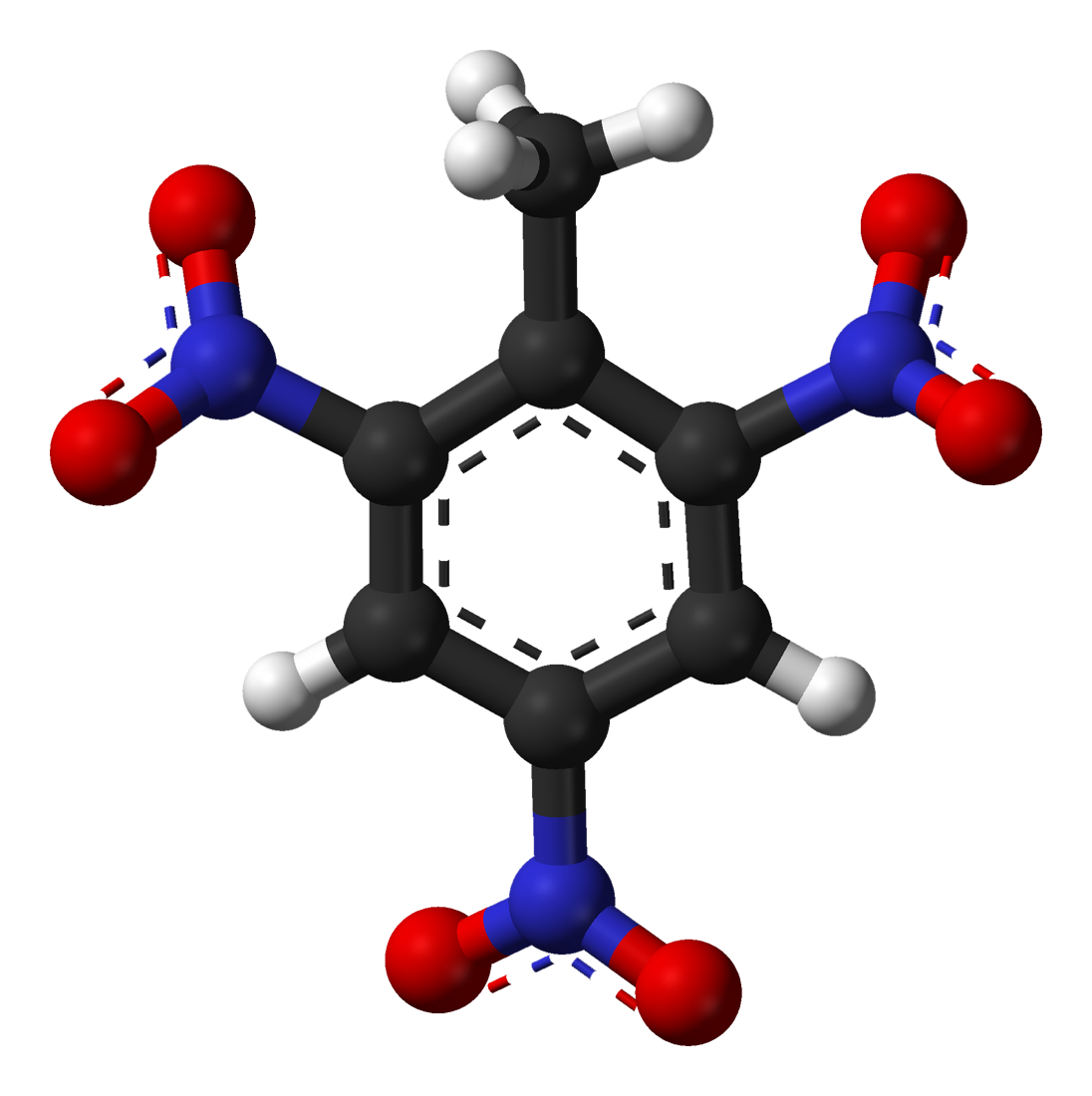 Ball-and-stick model of the TNT (trinitrotoluene) molecule, C7H5N3O6, as found in the crystal structure. X-ray crystallographic data from J. Phys. Chem. (1982) 86, 459-462. Model constructed in CrystalMaker 8.1. Image generated in Accelrys DS Visualizer.